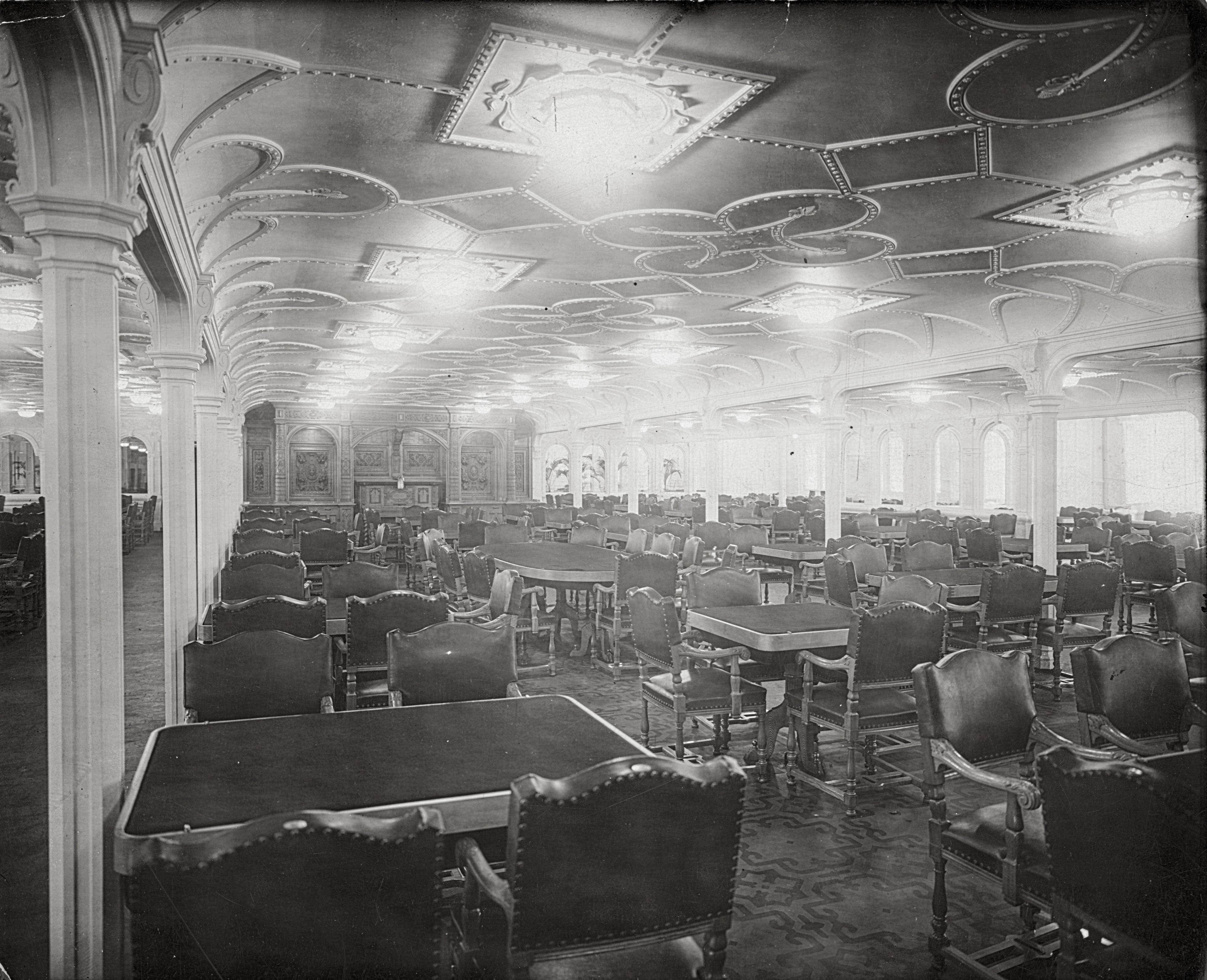 1st Class Dinning Saloon on D-Deck of the Olympic, Titanic 's sistership.